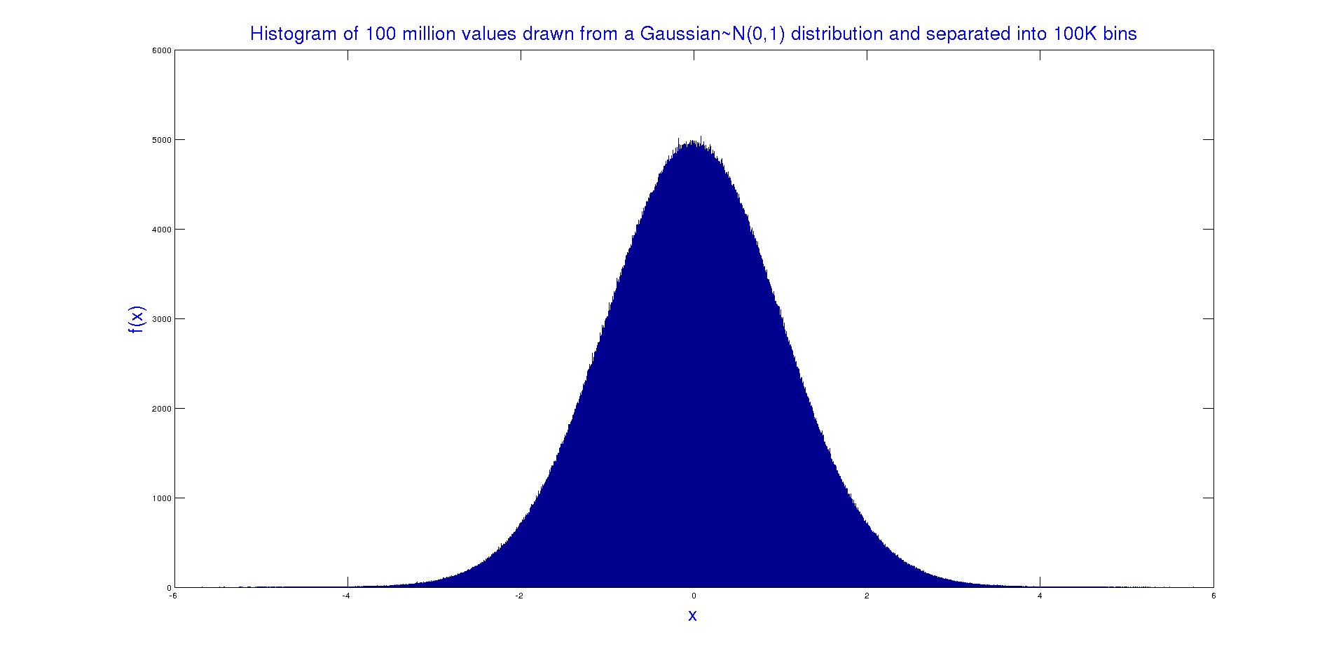 A histogram of 100 million random samples drawn from a Gaussian distribution and ordered into 100000 bins.